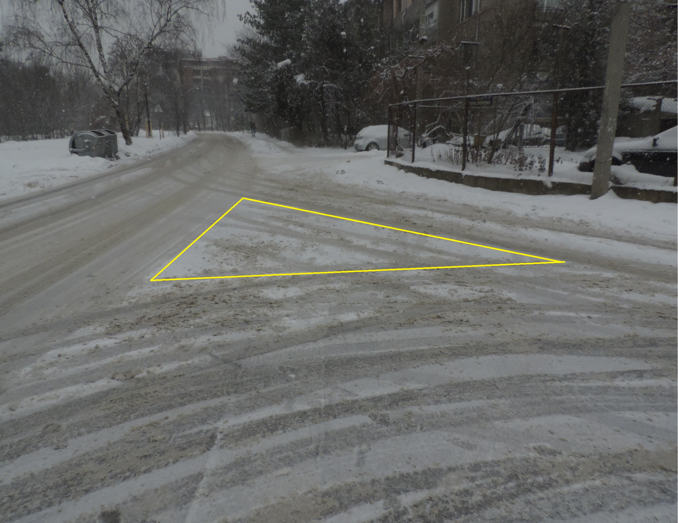 Sneckdown: Tire tracks in the snow, indicating which part of a crossroad is naturally not affected by the traffic. These tracks can be used to determine the location of refuge islands.